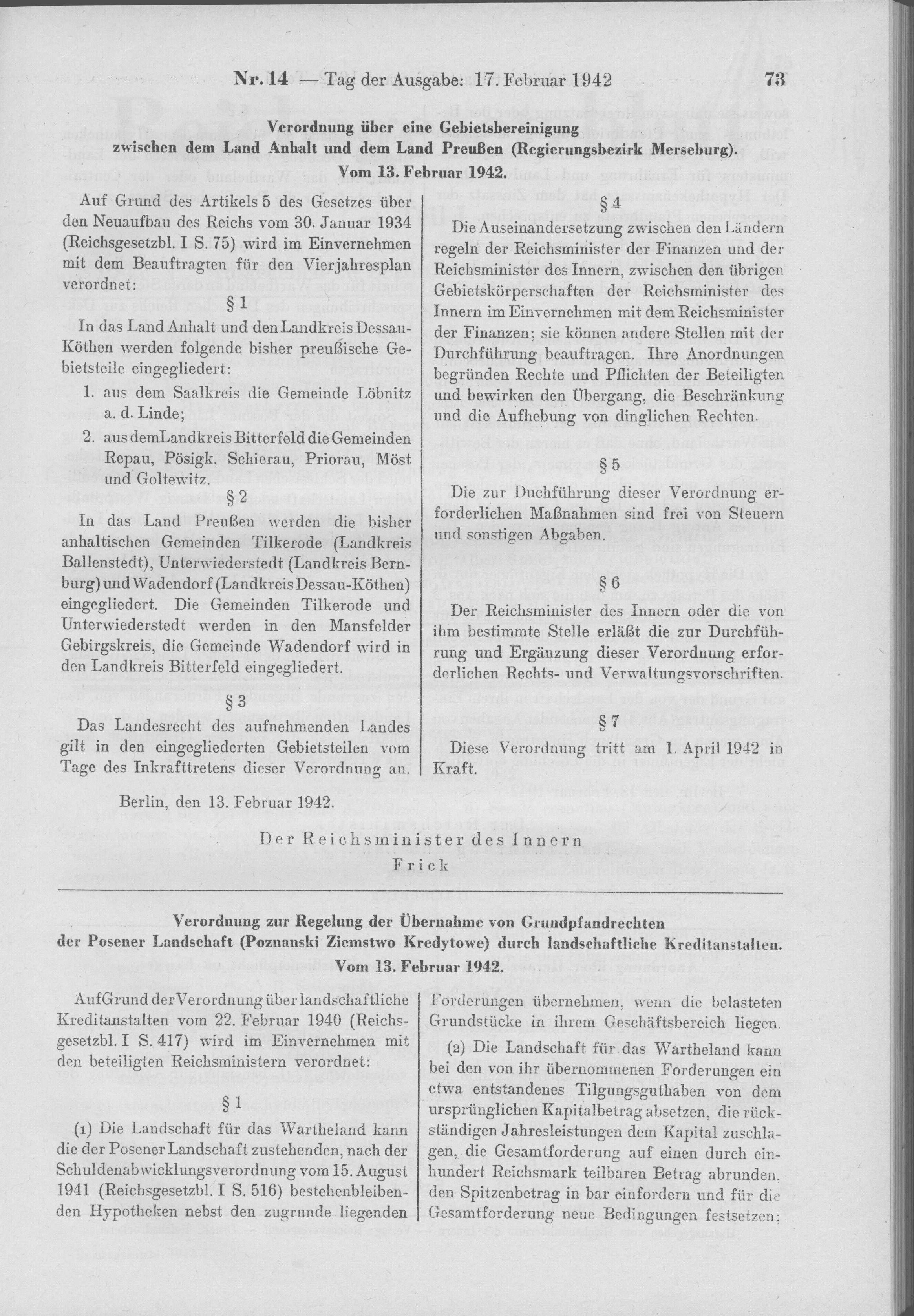 Scan from the Imperial Law Gazette of Germany, 1942, part 1